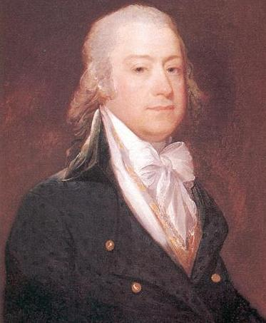 William Loughton Smith, US Representative from South Carolina